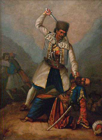 Bajo Pivljanin kills a Turk, oil painting by Aksentije Marodić (1838-1908). Depicts hajduk commander Bajo Pivljanin about to slay an Ottoman officer.